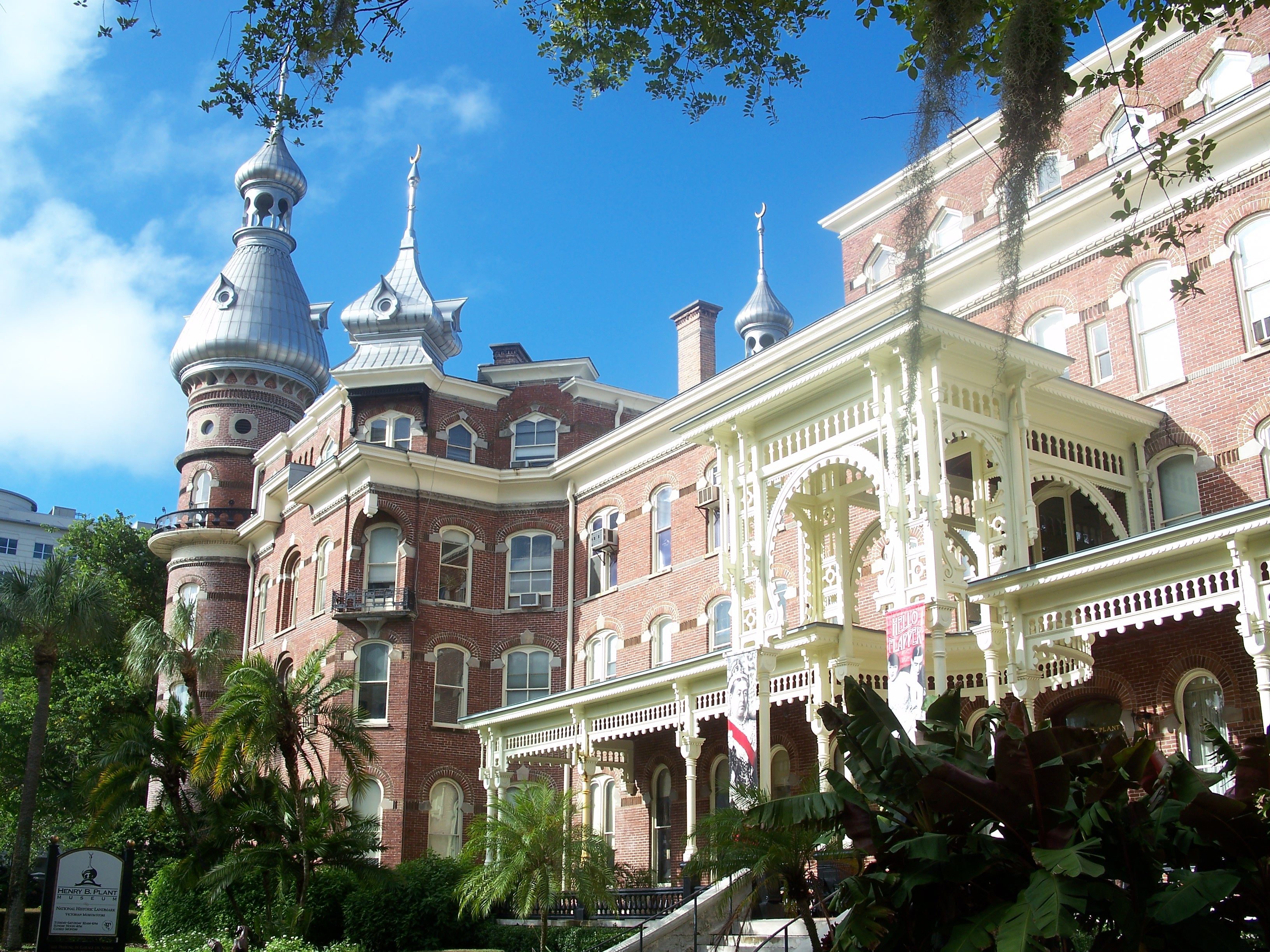 Old Tampa Bay Hotel, a National Historic Landmark, now part of the University of Tampa, in Tampa, Florida